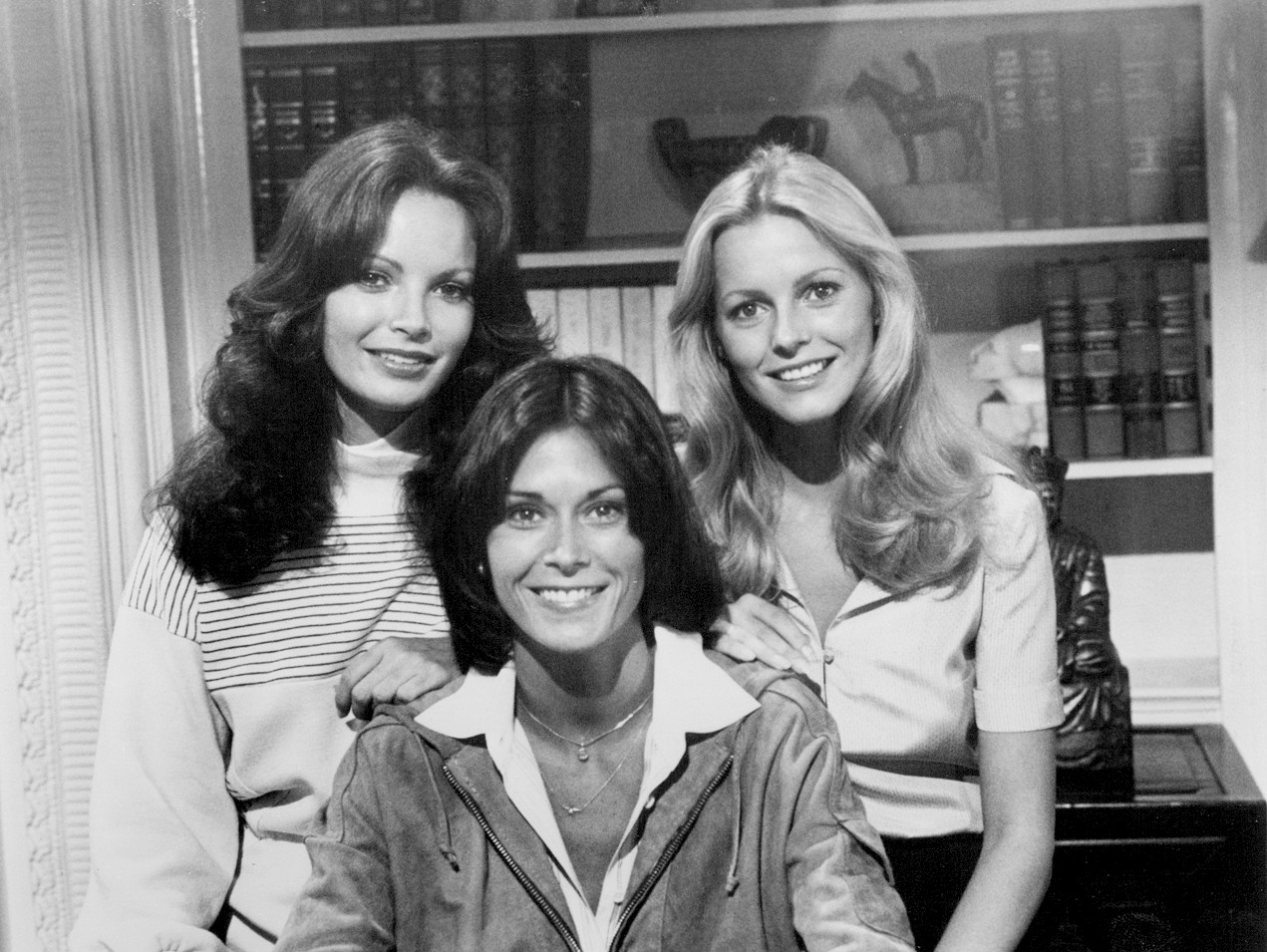 Photo of the cast of the television program Charlie's Angels. Left: Jaclyn Smith. Right: Cheryl Ladd. Center: Kate Jackson.